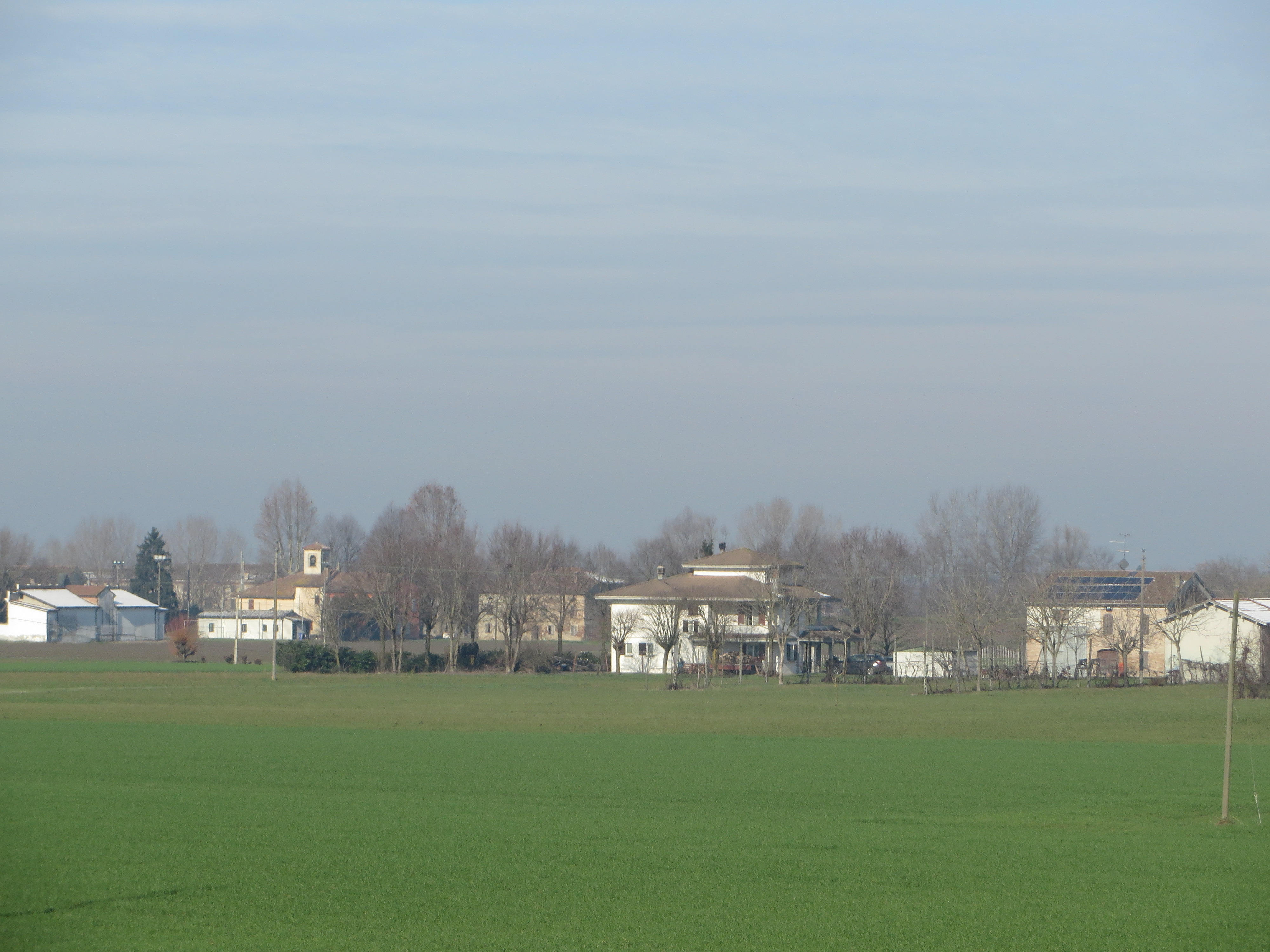 Pizzo village